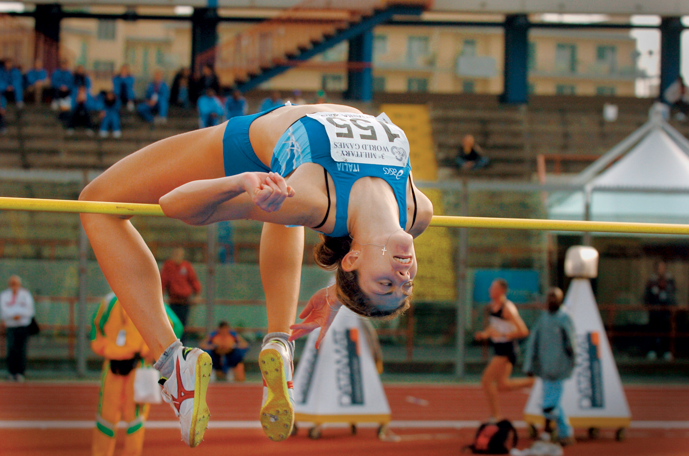 031206-N-6967M-003 In the 2003 Military World Games womens' high-jump competition, the Italian team jumped well but did not place. The Military World Games in Catania, Italy consisted of 86 participating countries and are designed to promote "Peace through Sports.” Russia won the overall medal competition at the games with 108, including 39 gold. The United States, suffering from a lack of participation, was 18th with four medals. (All Hands, April 2004, pg. 19) Photo by Photographer's Mate 1st Class (AW) Shane T. McCoy. (RELEASED)